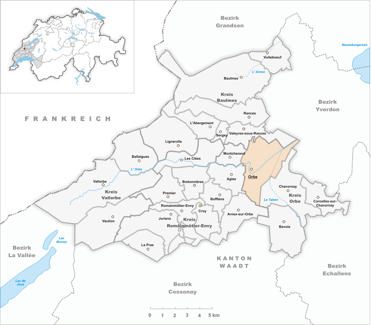 Municipality Orbe